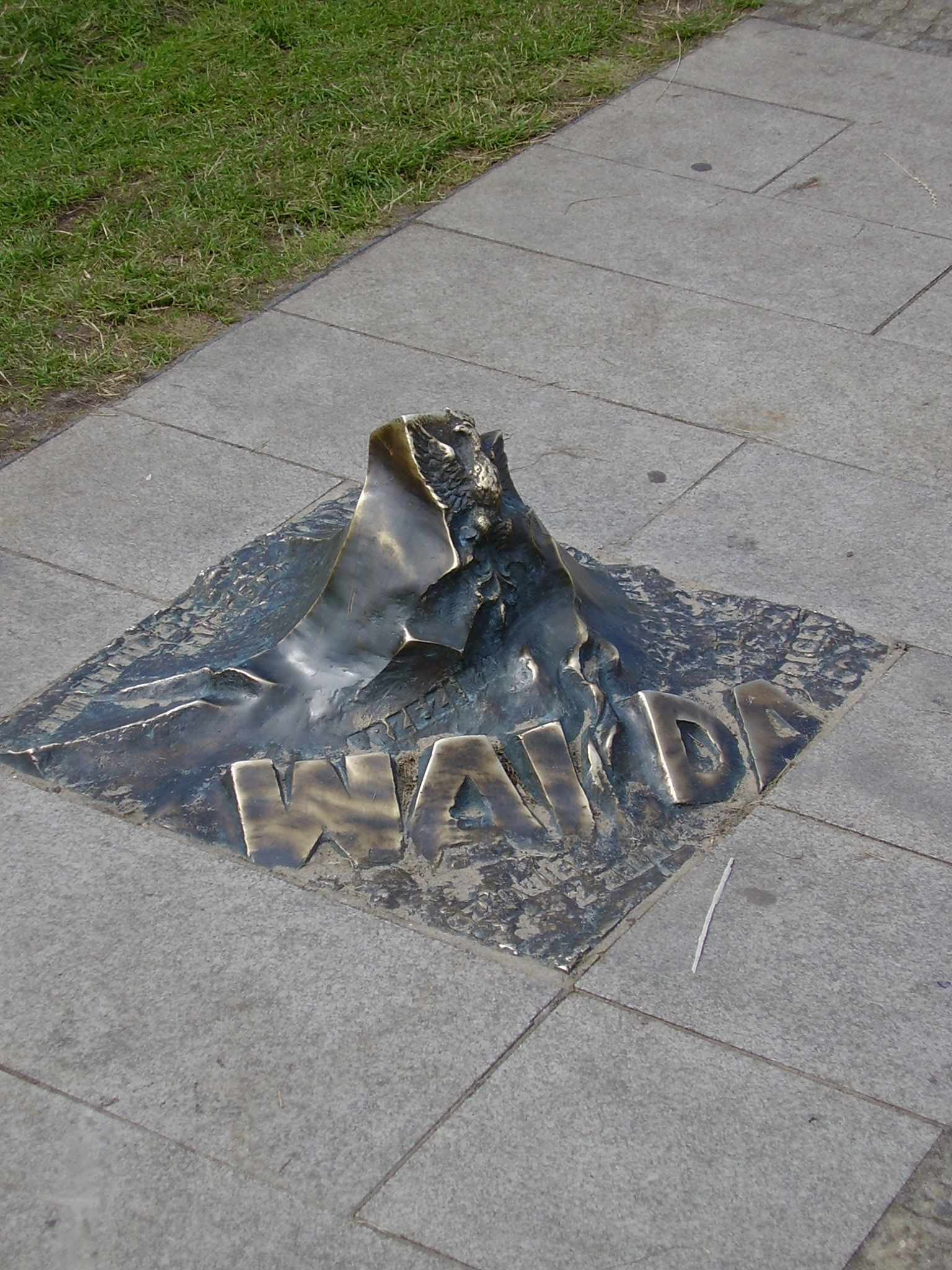 Promenada Gwiazd in Międzyzdroje (Poland)